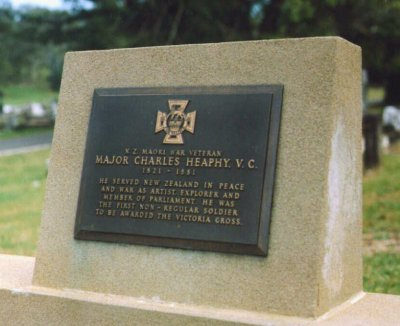 Grave photo of Victoria Cross recipient Charles Heaphy, at Toowong Cemetery, Queensland.